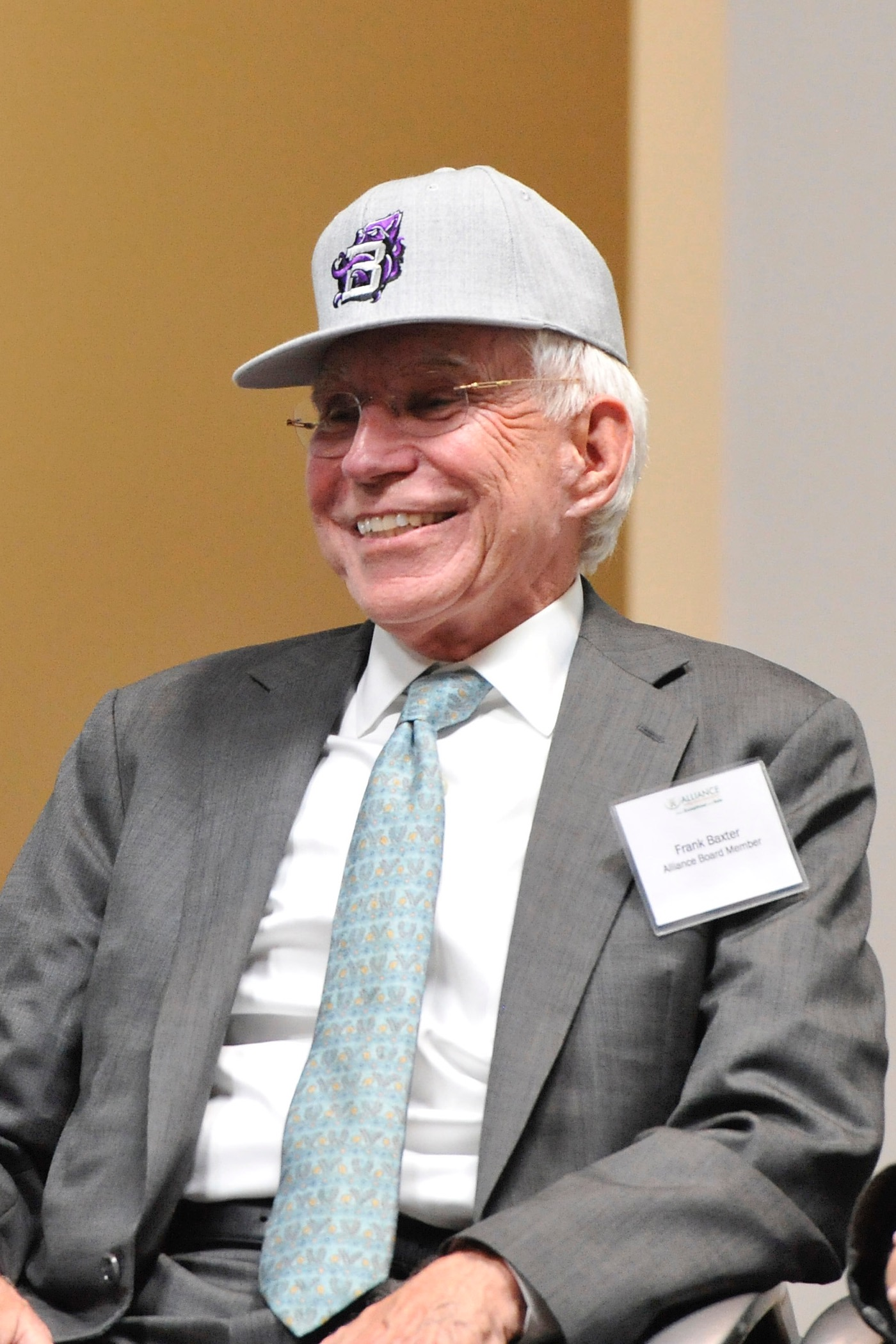 Ambassador Frank Baxter wearing his BHS cap